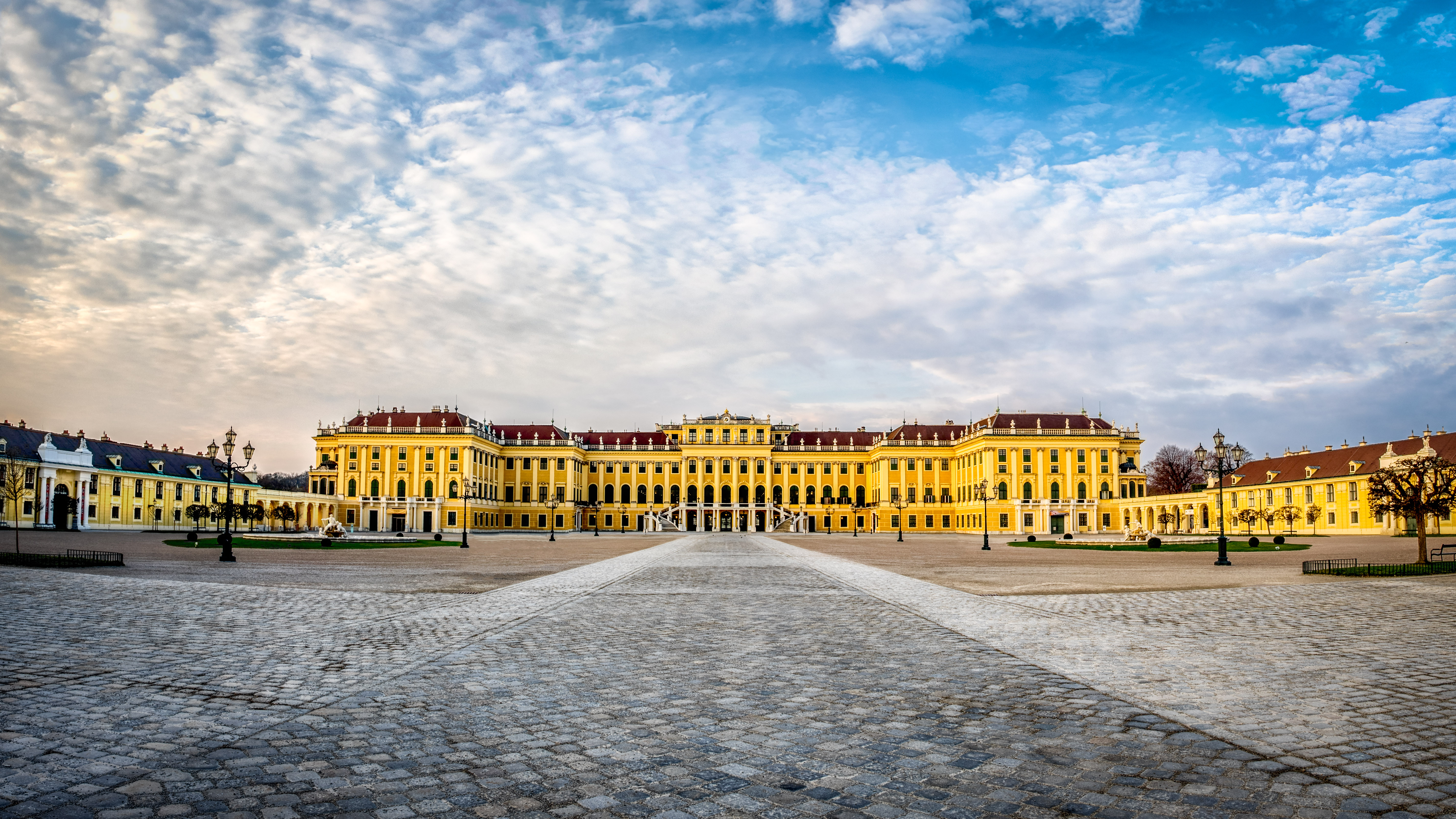 View from the main entrance.